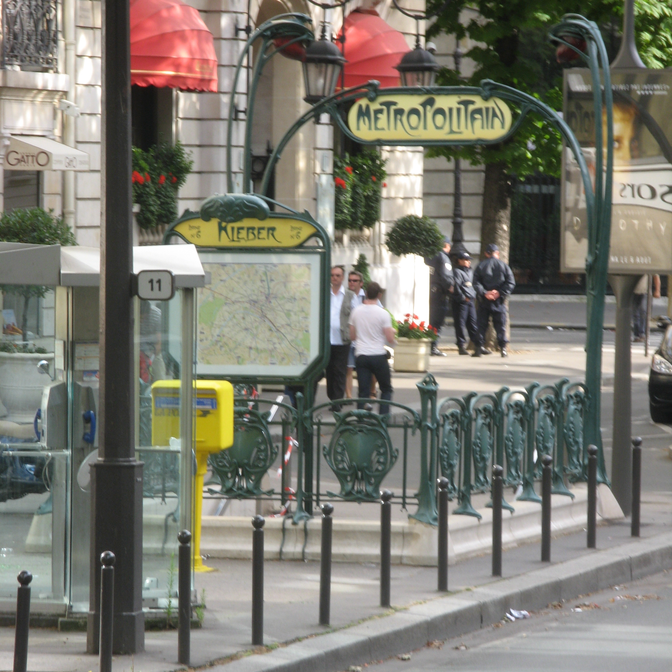 A beautiful lettering job seen at the entrance to the Paris Metro Station at Kieber. I don't know much about the history of the Metro but I'd say the sign is an original piece of art nouveau design.